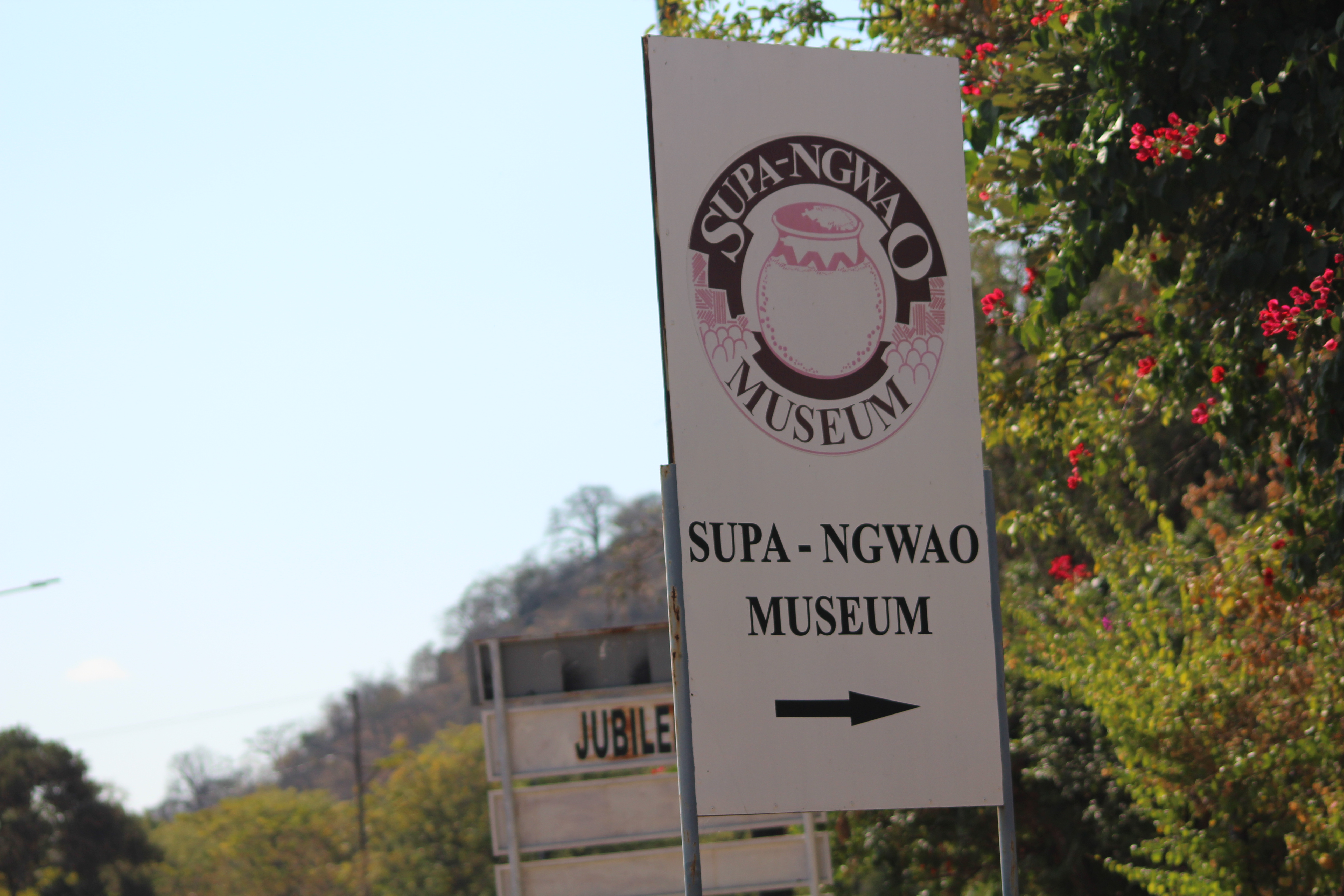 Supa Ngwao Museum in Francistown Botswana. The Museum has the historical information about Francistown and sorrounding areas.